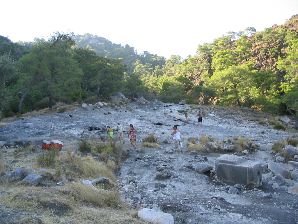 A view of the eternally 'flaming stones' of Yanartas (the ancient Chimaera) near Cinali in southwest Turkey, taken on 8th August 2005. Also visible is a stone from the temple of Hephaistos, some tourists, and the tea-kettle.